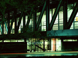 Art Center College of Design — in Pasadena, California. Building designed by Craig Ellwood.